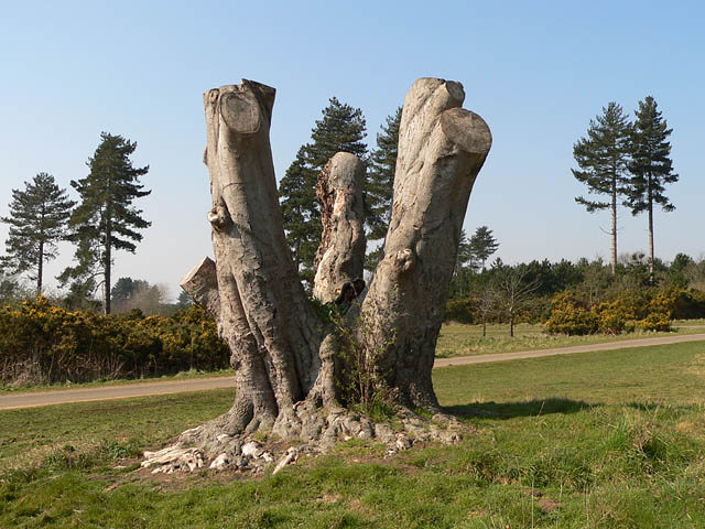 Tree stump Imposing tree stump near T junction